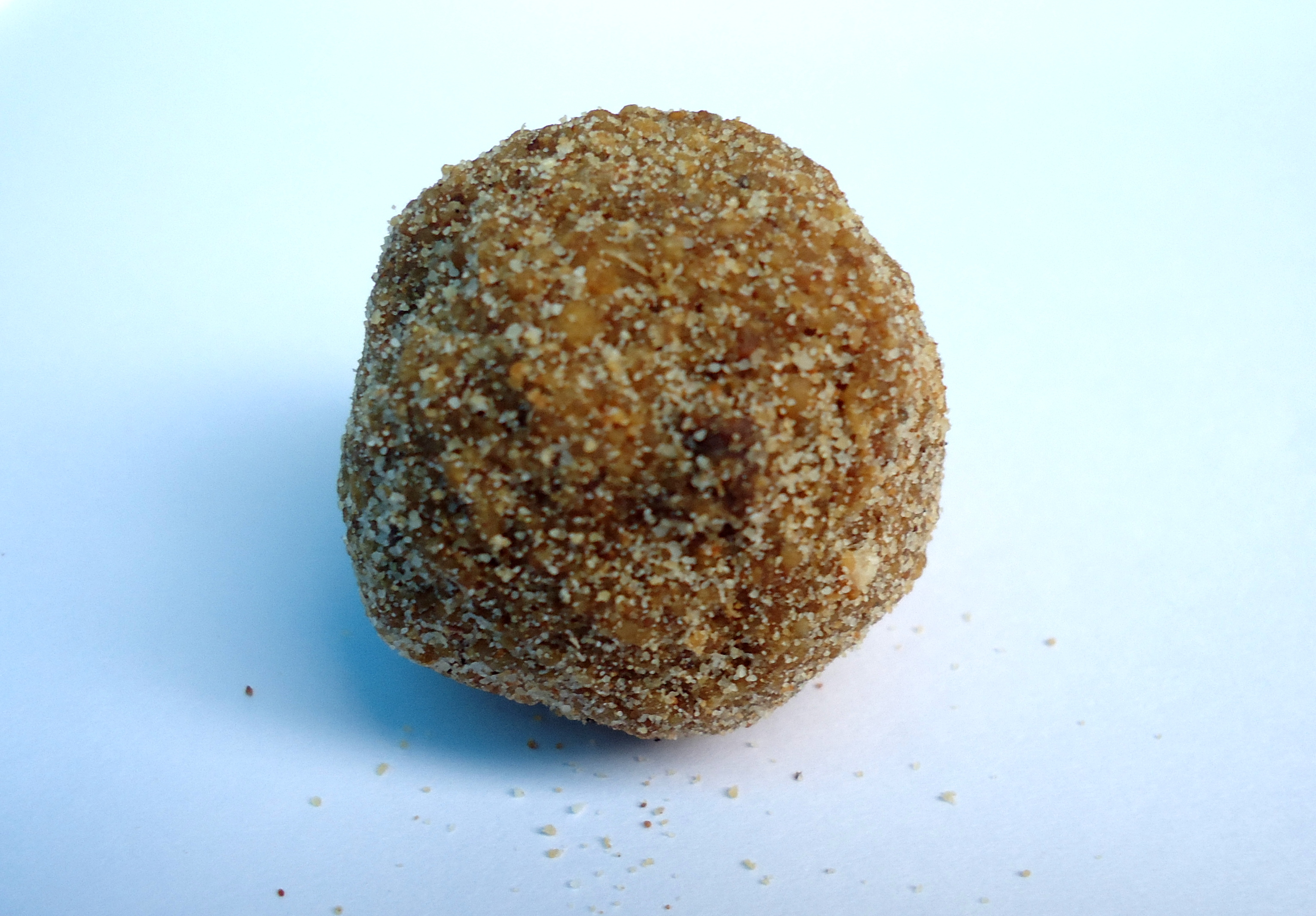 Rice Ball from Kerala